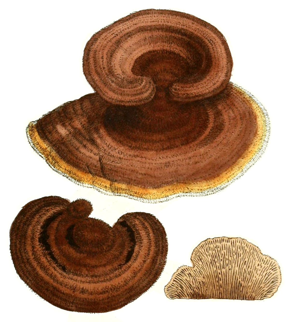 Conifer Mazegill (Gloeophyllum sepiarium)